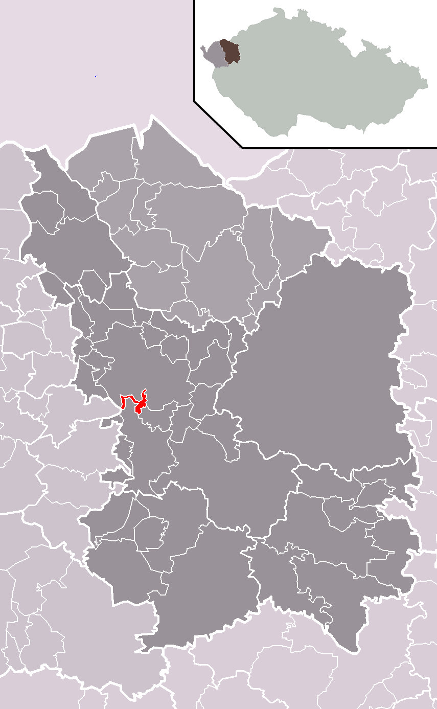 Location of Březová municipality within Karlovy Vary District and administrative area of Karlovy Vary as a Municipality with Extended Competence.